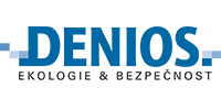 DENIOS CZ logo